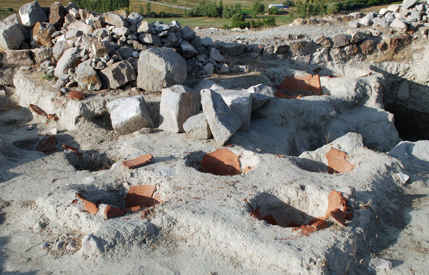 Altintepe, near Erzincan, pithoi